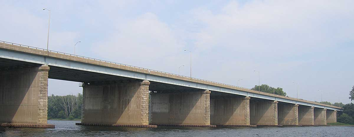 The Captain John Bissell Memorial Bridge carries I-291 over the Connecticut River between Windsor and South Windsor, Connecticut.